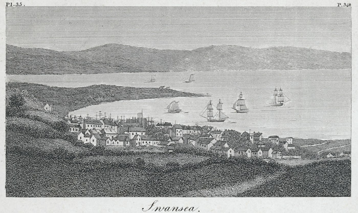 A view overlooking the bay at Swansea with a few ships in the water and houses on the sea front.